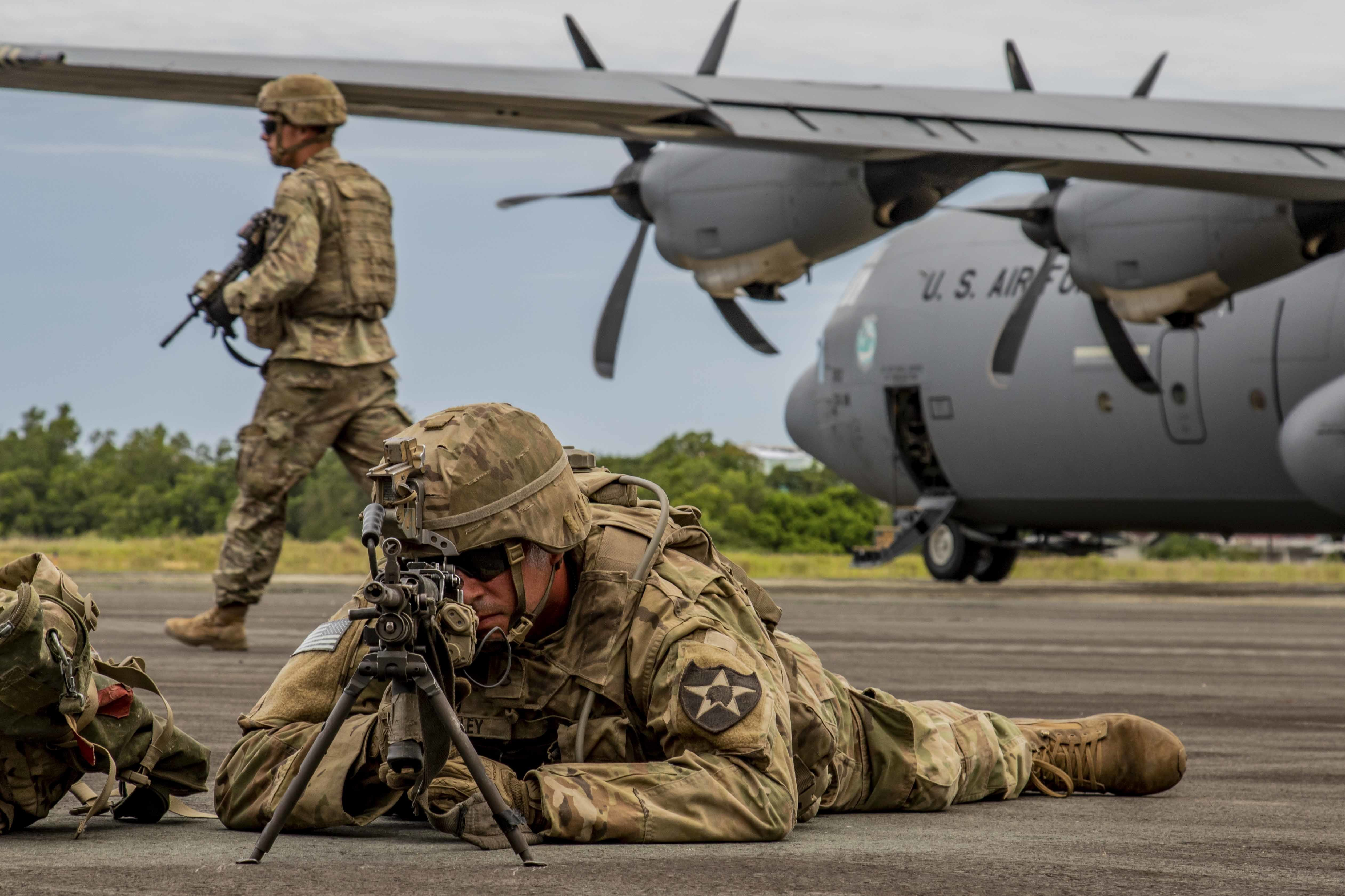 Private 1st Class Benjamin Alley, an infantryman serving with A Company, 5th Battallion, 20th Infantry Regiment, 1-2 Stryker Brigade Combat Team, 7th Infantry Division, stages in a security posture while more of his fellow Soldiers exit a C-130 Hercules on Palau International Airport, April 13, 2019, as part of Exercise Palau. The exercise is part of Pacific Pathways, an annual U.S. Army Pacific (USARPAC) operation, demonstrating the U.S. Army’s commitment to the Palau nation, security cooperation for a free and open Indo-Pacific. The exercise will run from the 13th - 19th, and will include several security cooperation training events as well as community and animal health outreach services at several sites including Koror, Peleliu and Angaur.